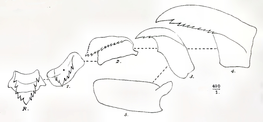 Radula of Bathymophila callomphala (Schepman, 1908); family Solariellidae (magnification 400 x)